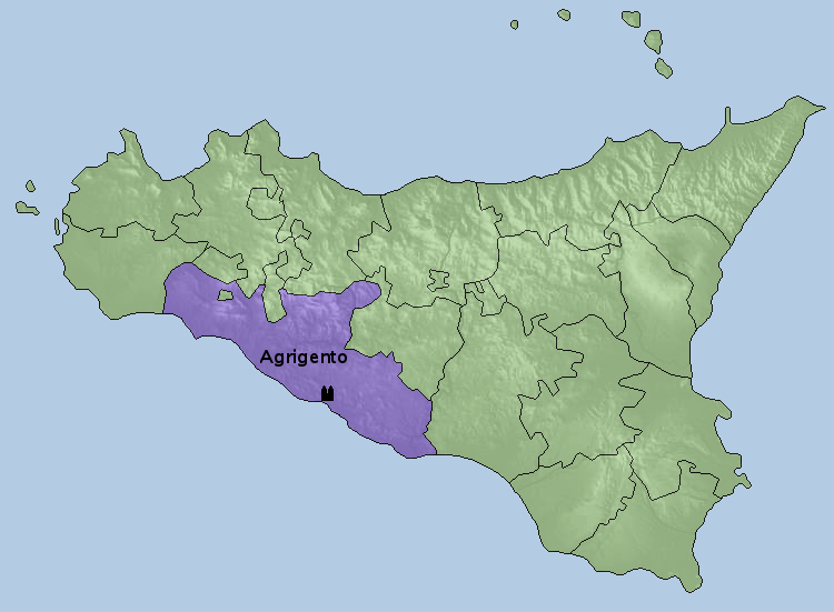 Map of the archdiocese of Agrigento (^^: Cathedral of a metropolitan diocese, –^: Cathedral of a suffragan diocese, ^–: Co-cathedral)